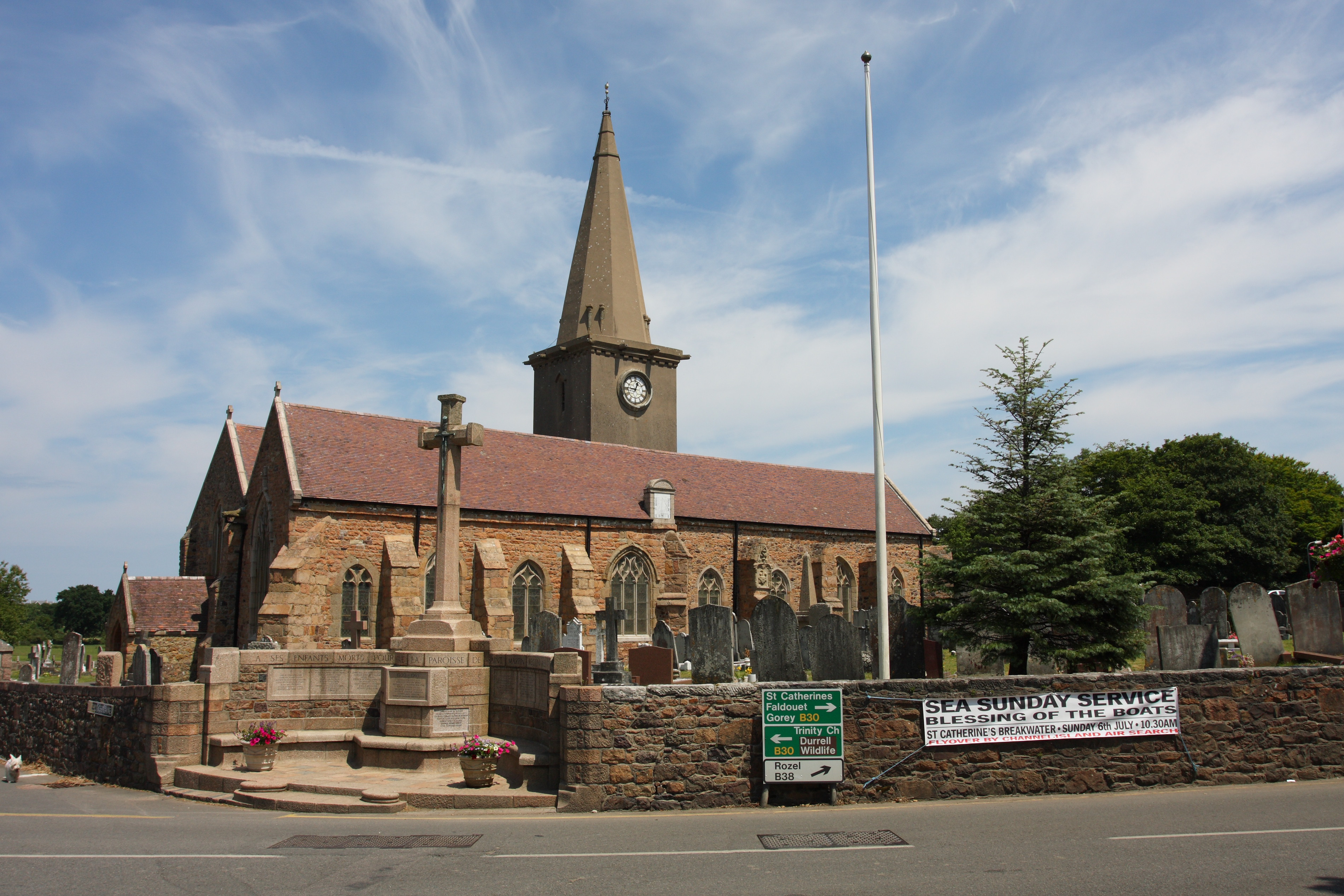 St. Martin's Church, Jersey, Channel Islands.